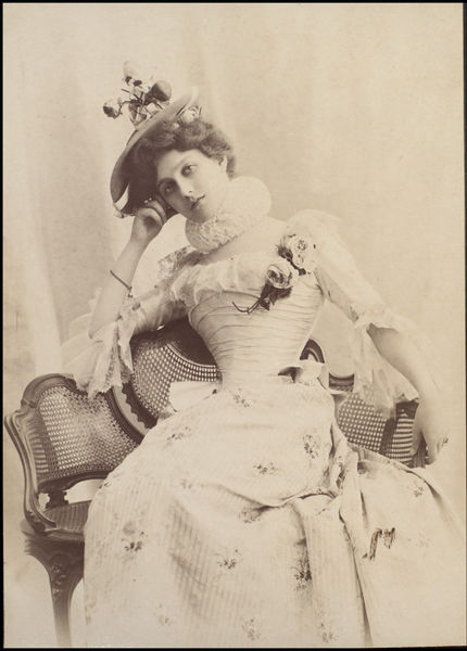 photograph of Frenchwoman Jane Henriot (1878-1900), daughter of[1] French stage actress Henriette Henriot (1857-1944). Henriette Henriot is notable as being a model for Pierre-Auguste Renoir.